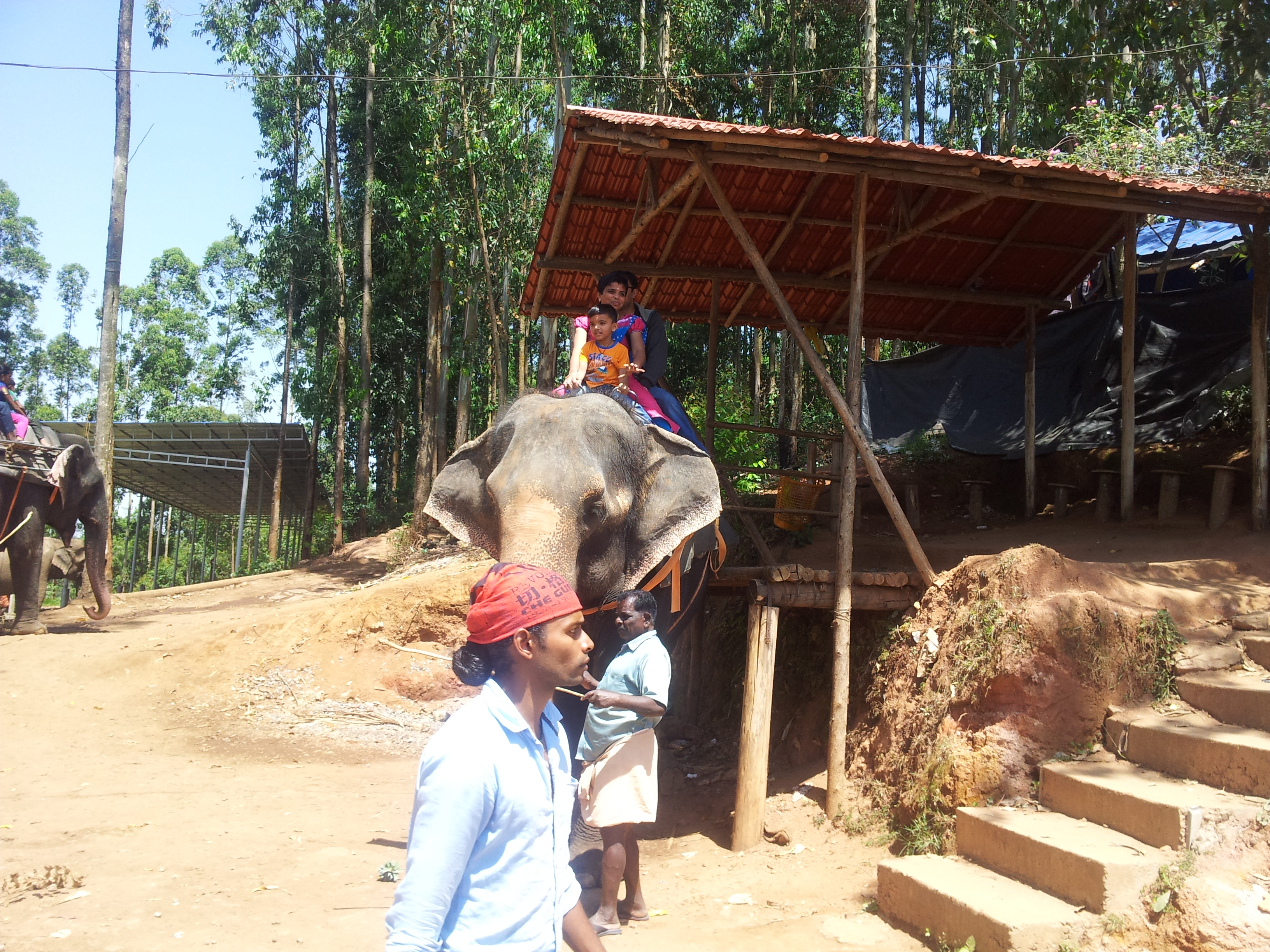 A snap of elephant ride at Carmelagiri Elephant Park, Munnar